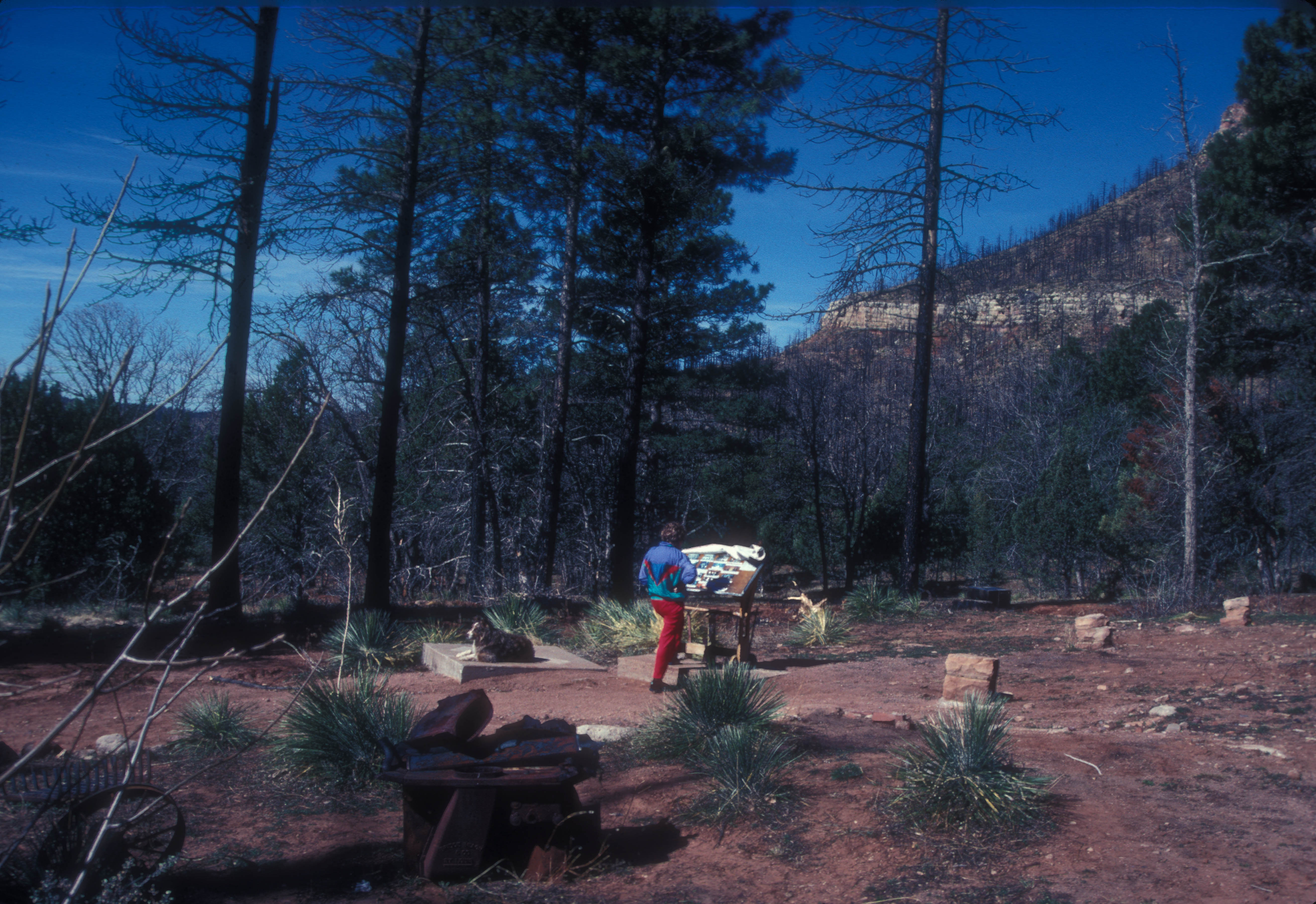 LOCATED NEAR KOHL'S RANCH JUST BENEATH THE MOGOLLON RIM; BURNT IN A LIGHTNING-INITIATED DUDE FOREST FIRE IN JUNE 1990 ZANE GREY STAYED HERE SEVERAL WEEKS FROM 1923-1930. IT WAS AT ONE TIME ON THE NATIONAL REGISTRY